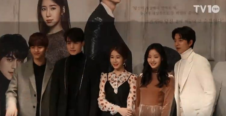 Press conference of Guardian: The Lonely and Great God